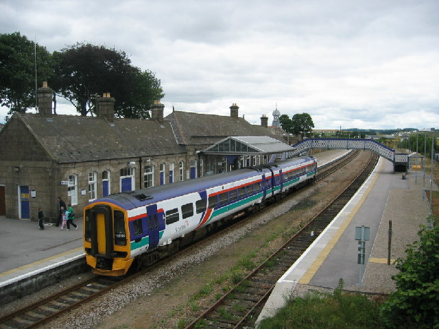 Inverurie railway station